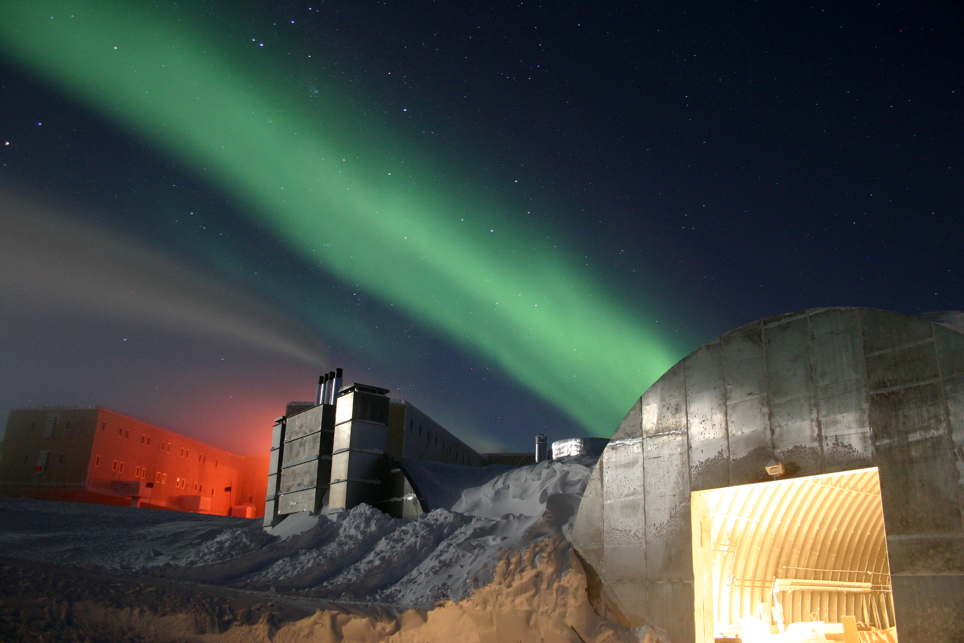 A full moon and 25 second exposure allowed sufficient light into this photo taken at Amundsen-Scott South Pole Station during the long Antarctic night. The new station can be seen at far left, power plant in the center and the old mechanic's garage in the lower right. Red lights are used outside during the winter darkness as their spectrum does not pollute the sky, allowing scientists to conduct astrophysical studies without artificial light interference. There is a background of green light. This is the Aurora Australis, which dances thorugh the sky virtually all the time during the long Antarctic night (winter).The photo's surreal appearance makes the station look like a futuristic Mars Station.